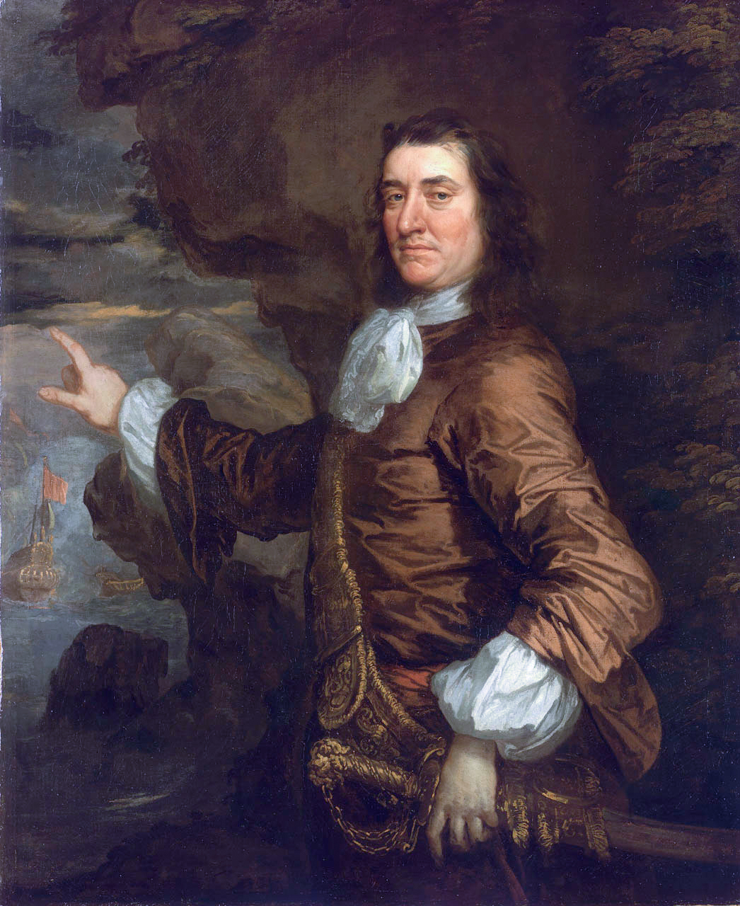 A three-quarter-length portrait to left in a brown silk coat. Allin's left hand rests on his sword, which hangs on a heavy gold embroidered baldric and his right hand points towards ships in action on the left. There is a rocky background on the right. One of Lely's thirteen 'Flagmen of Lowestoft' portraits.